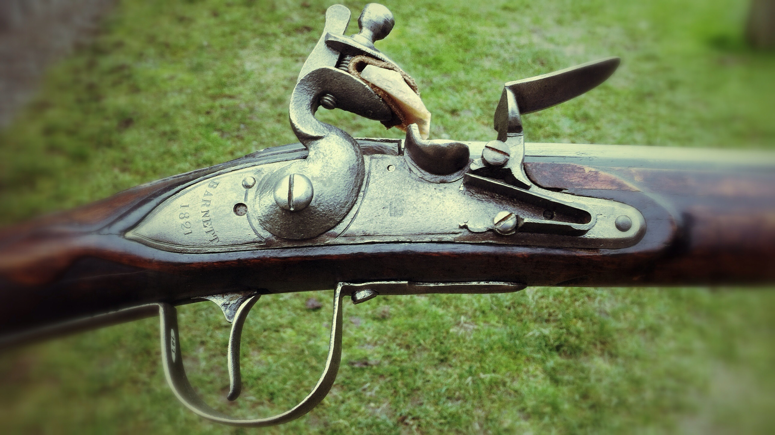 Detail view of a NW Trade Gun in the park's collection. NPS Photo by Greg Shine